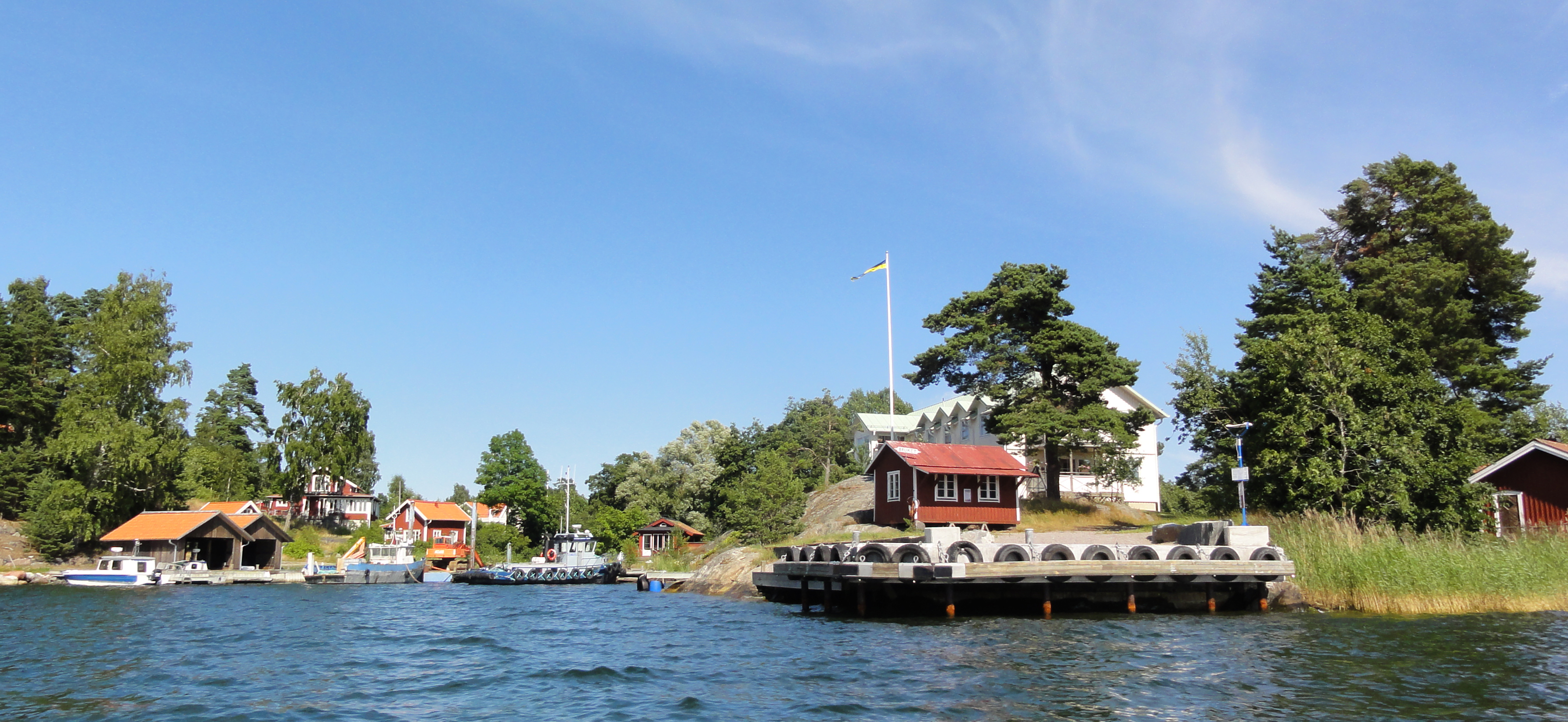 Bruket landing stage, on the north-west shore of Blidö island, Stockholm archipelago